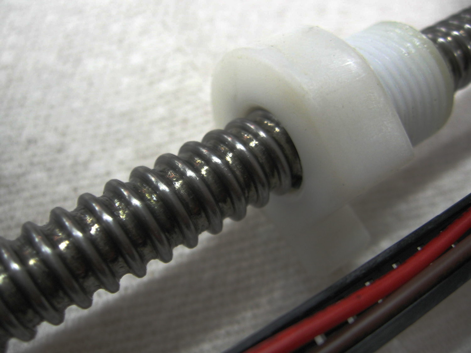 This is the rounded knuckle thread leadscrew inside a linear actuator. The leadscrew is rotated to drive the nut left and right. The leadscrew's smooth rounded thread form protects the actuator's white plastic nut from wear.